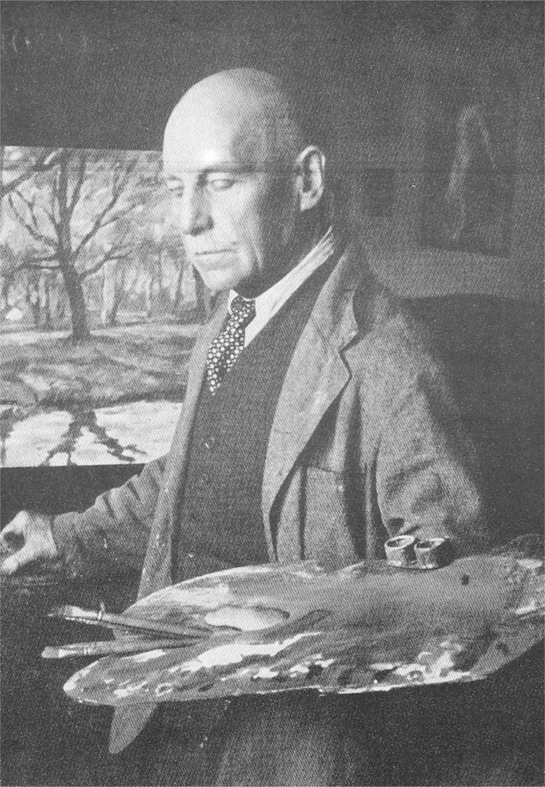 Fotograph